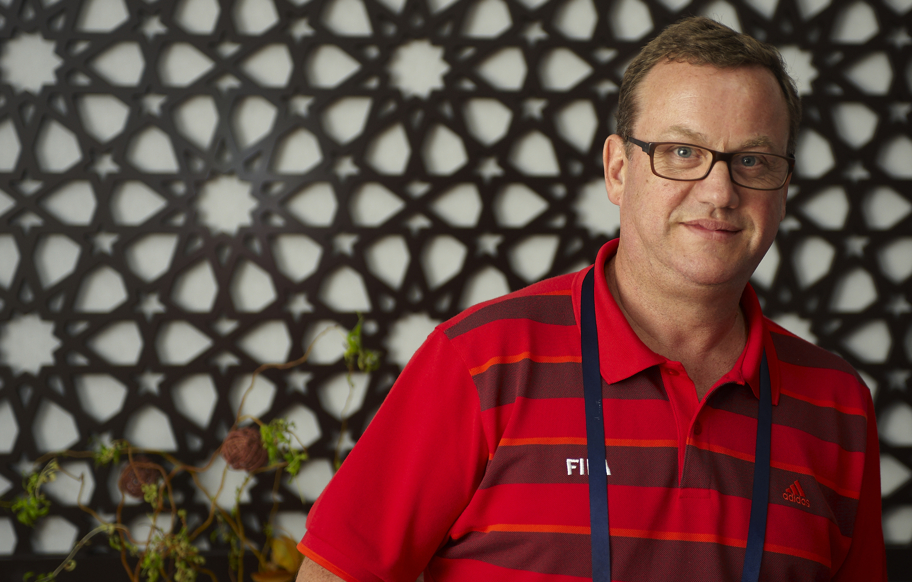 Beach Soccer Worldwide Vice-president, and FIFA Board Member